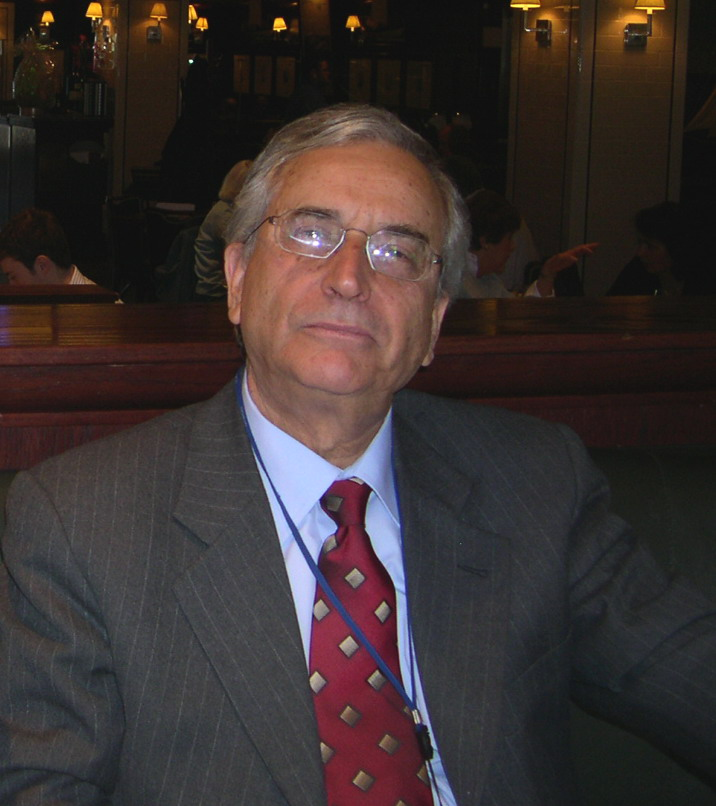 Professor of Aristotle University of Thessaloniki, Athanasios Angelopoulos - Photo taken 2005